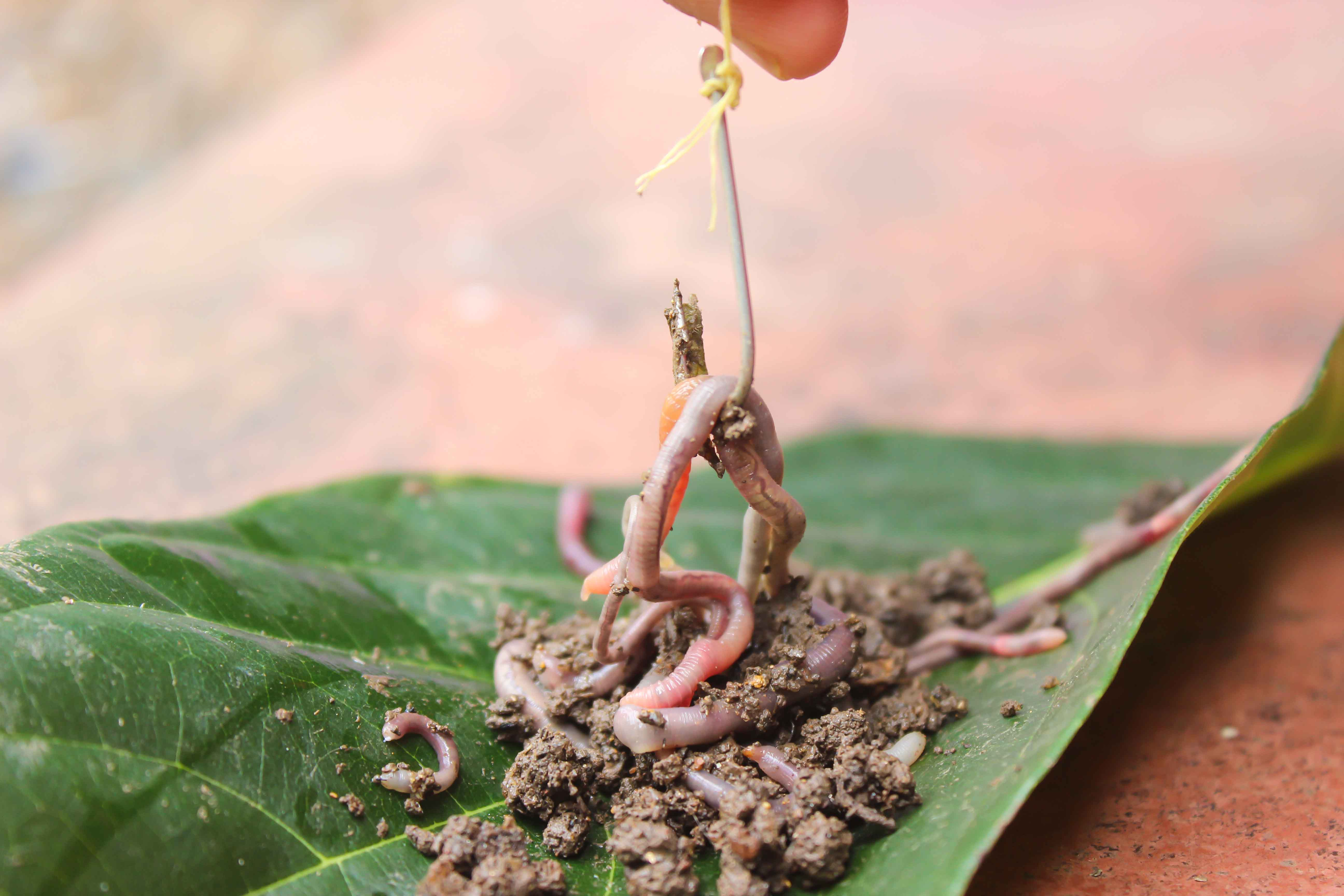 മണ്ണിരയെ ചൂണ്ടയിൽ കോർക്കുന്നു